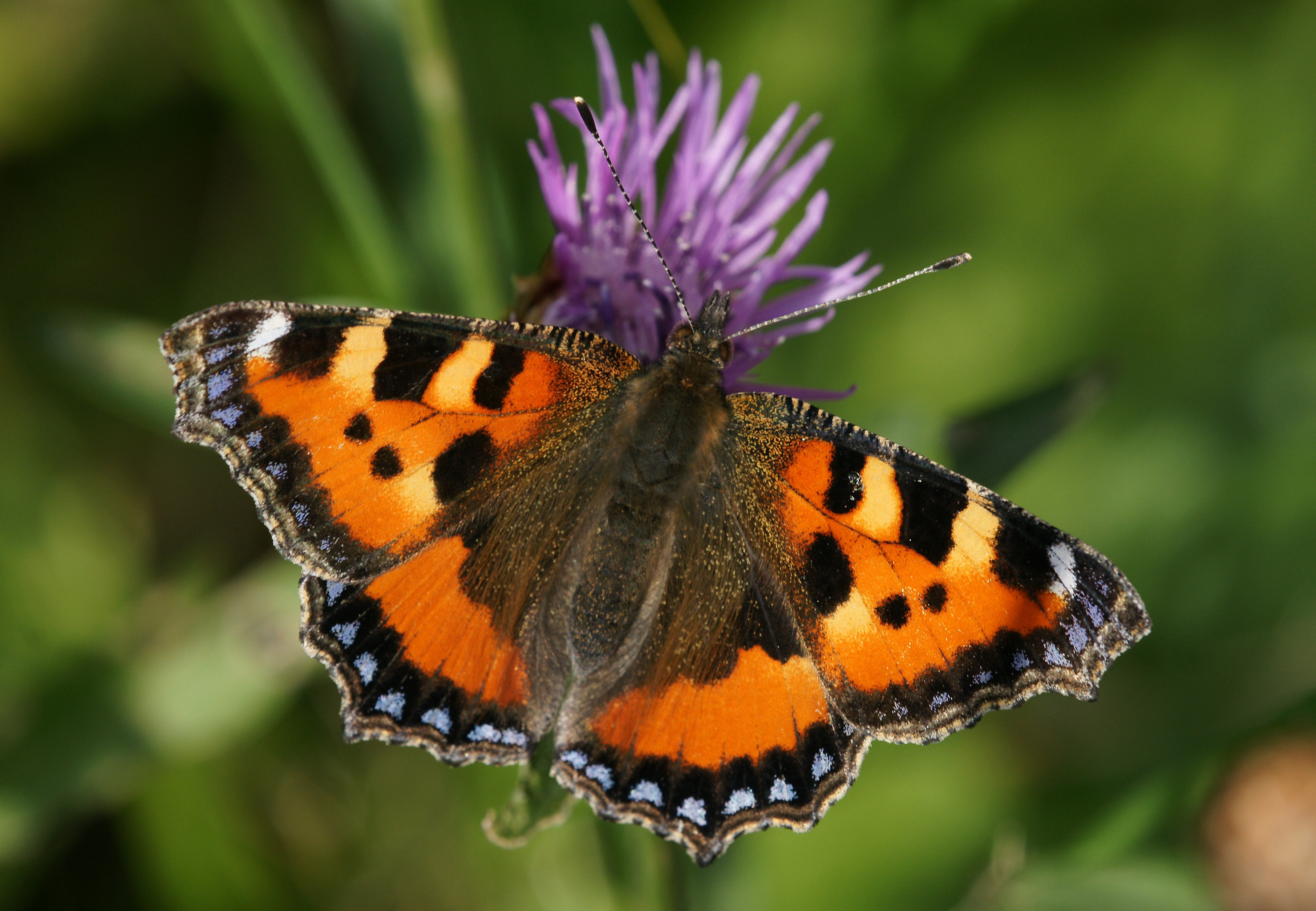 The Small Tortoiseshell (Nymphalis urticae) is a well-known colourful butterfly, found in temperate Europe.